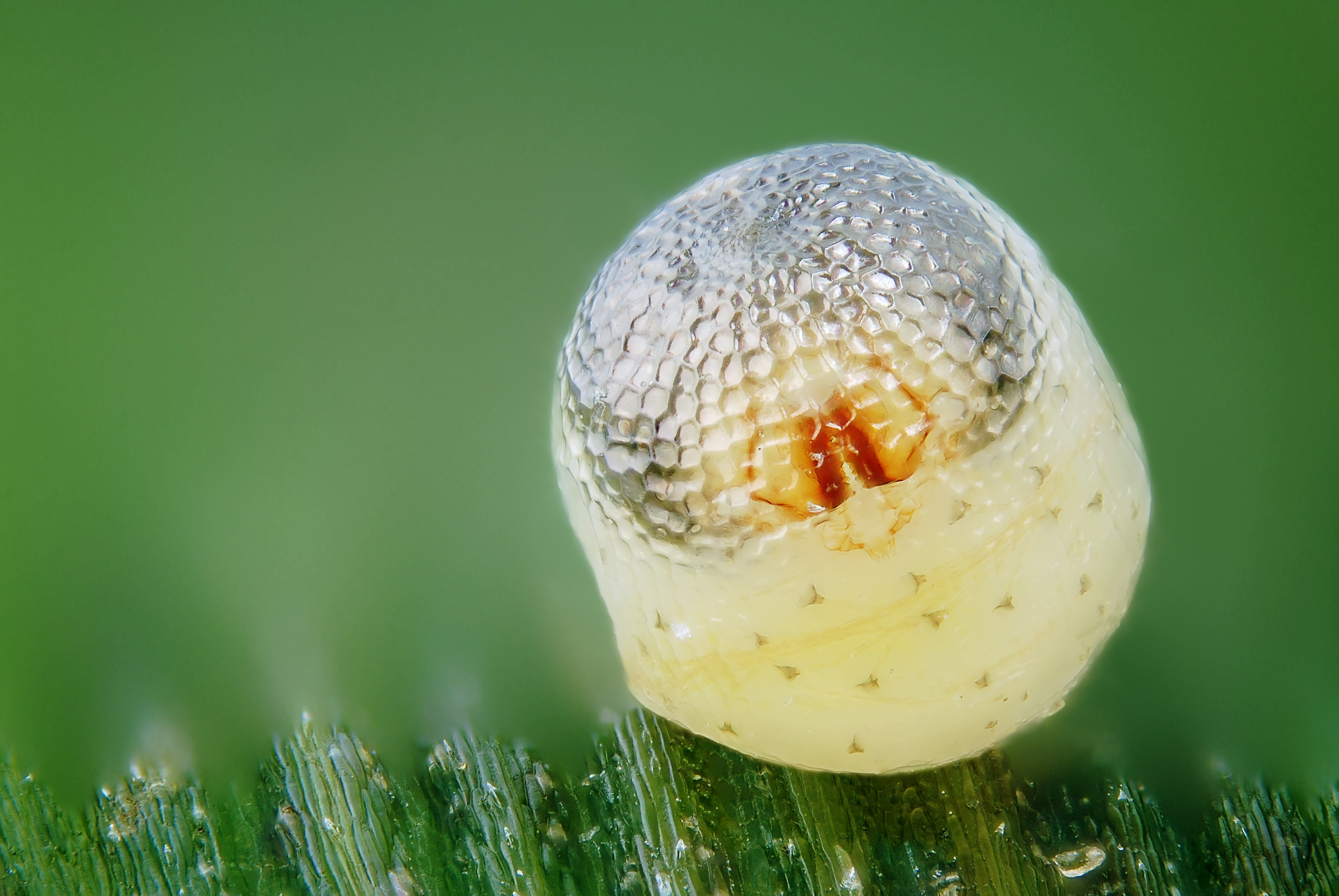 Egg of the butterfly Pararge aegeria with embryo / caterpillar visible by transparency. You can see through the egg shell the head capsel (blackish) with the ocelli (eyes), the mandibles (reddish) with labial palps and the base of the caterpillar body bristles (grayish dots on the lower part) Scale : egg height = 1 mm, egg width = 0.9 mm Technical settings : - focus stack of 100 images - microscope objective (Nikon achromatic 10x 160/0.25) on bellow (70 mm extension)